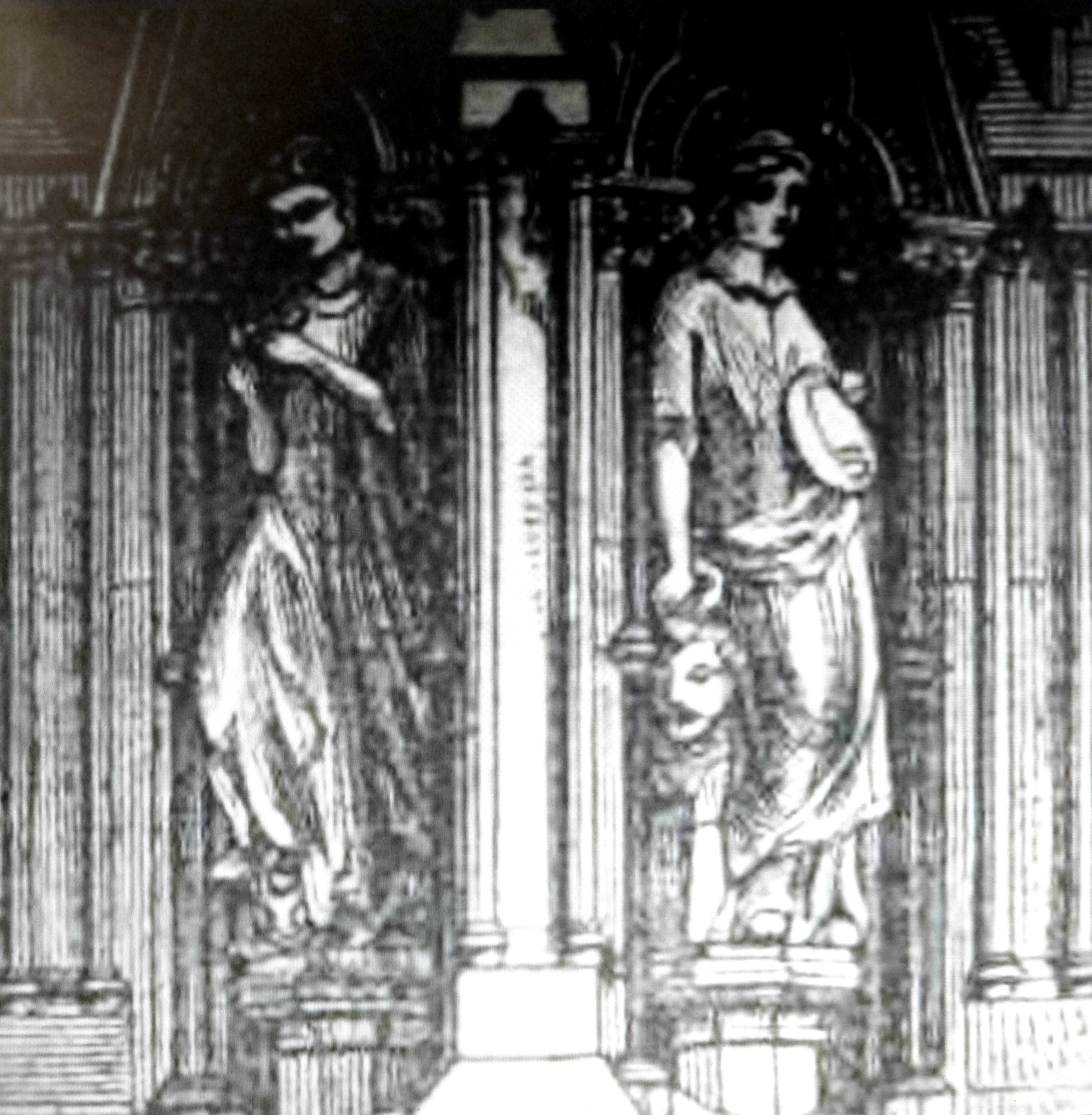 Print of lithograph of Albert Memorial Queensbury, built in 1863. Carved by Mawer & Ingle of Leeds.